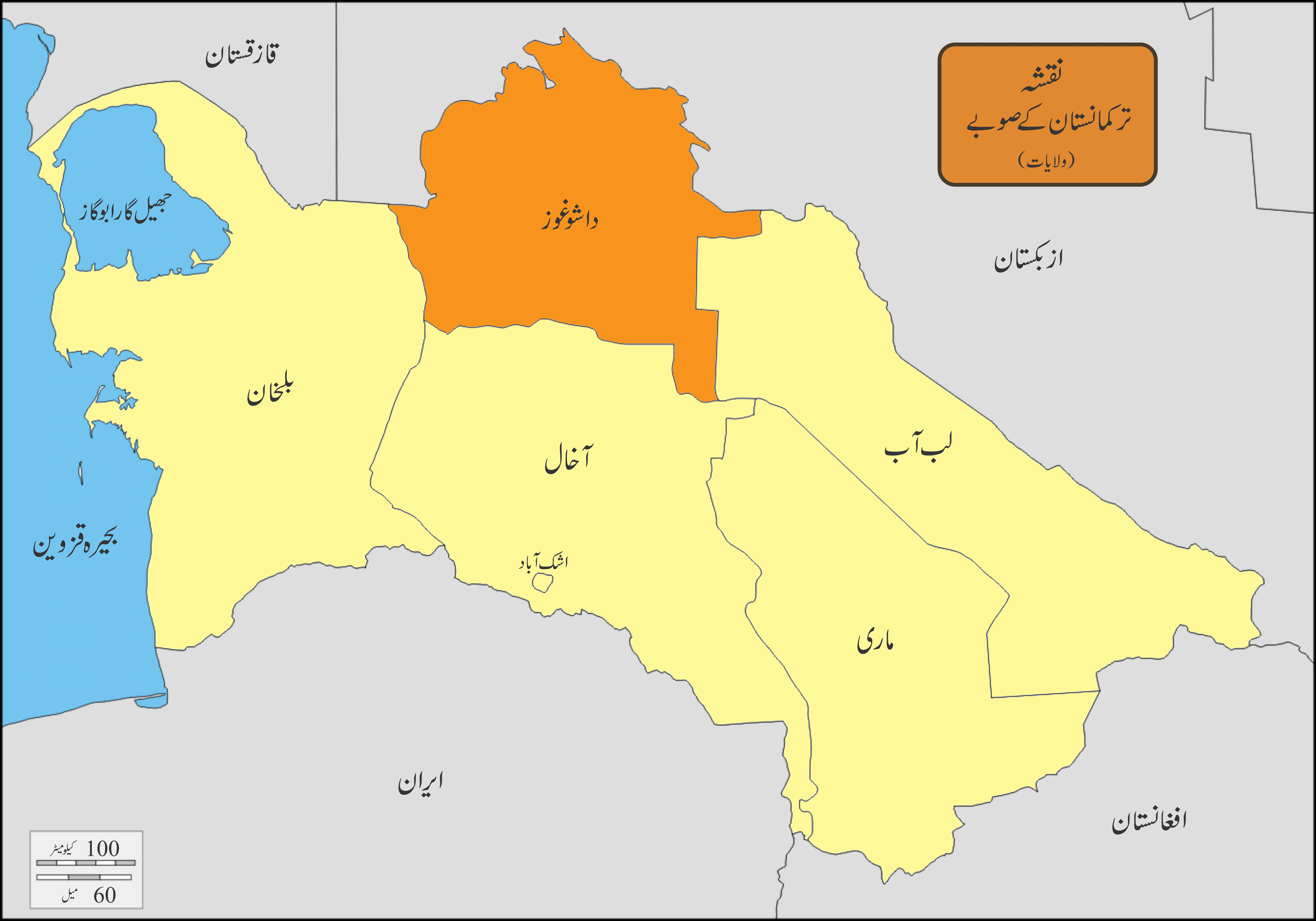 Turkmenistan Ur Daşoguz